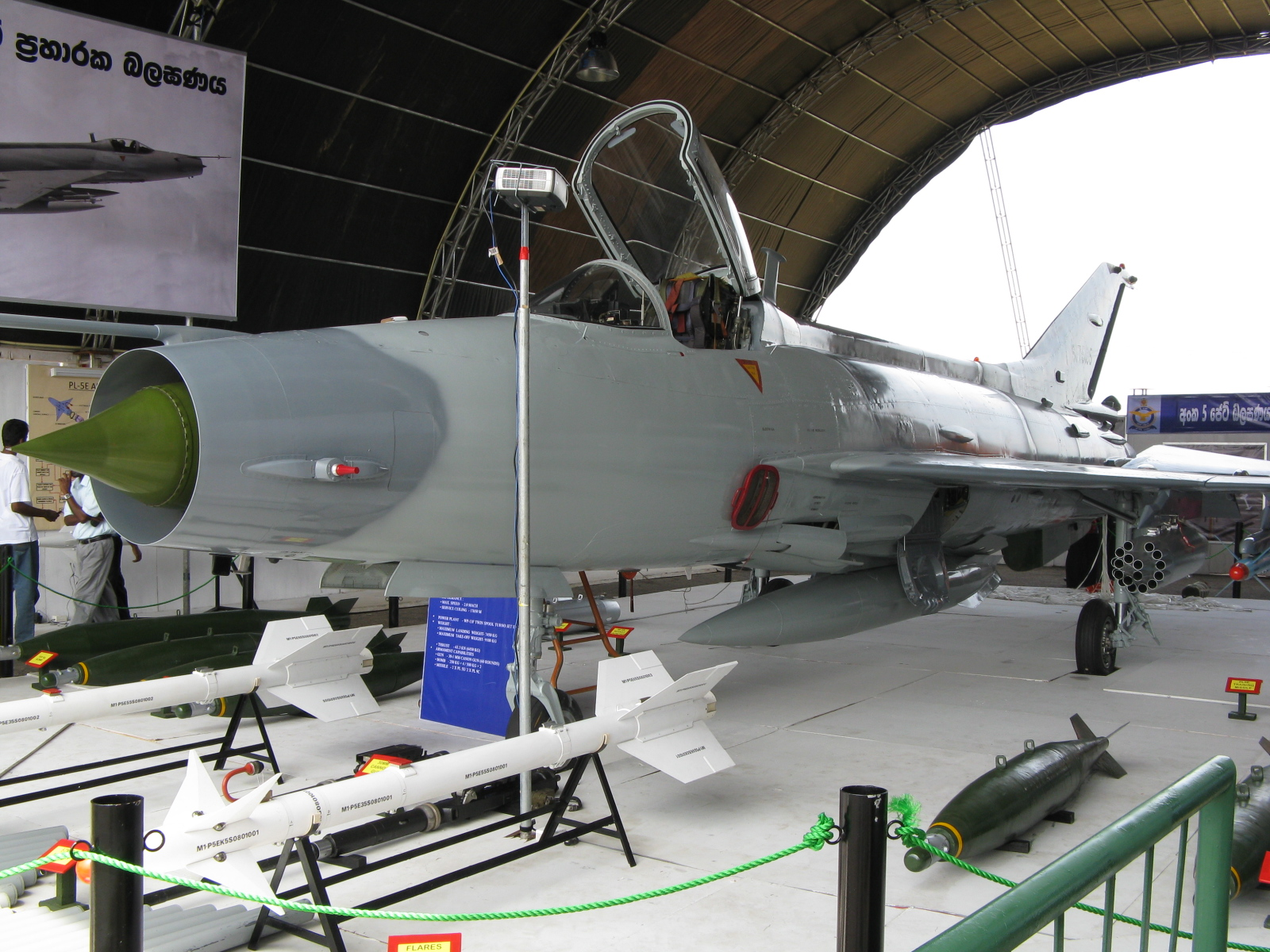 Sri Lanka Air Force Chengdu F-7GS Interceptor Aircraft, export version of the Chinese Chengdu J-7.